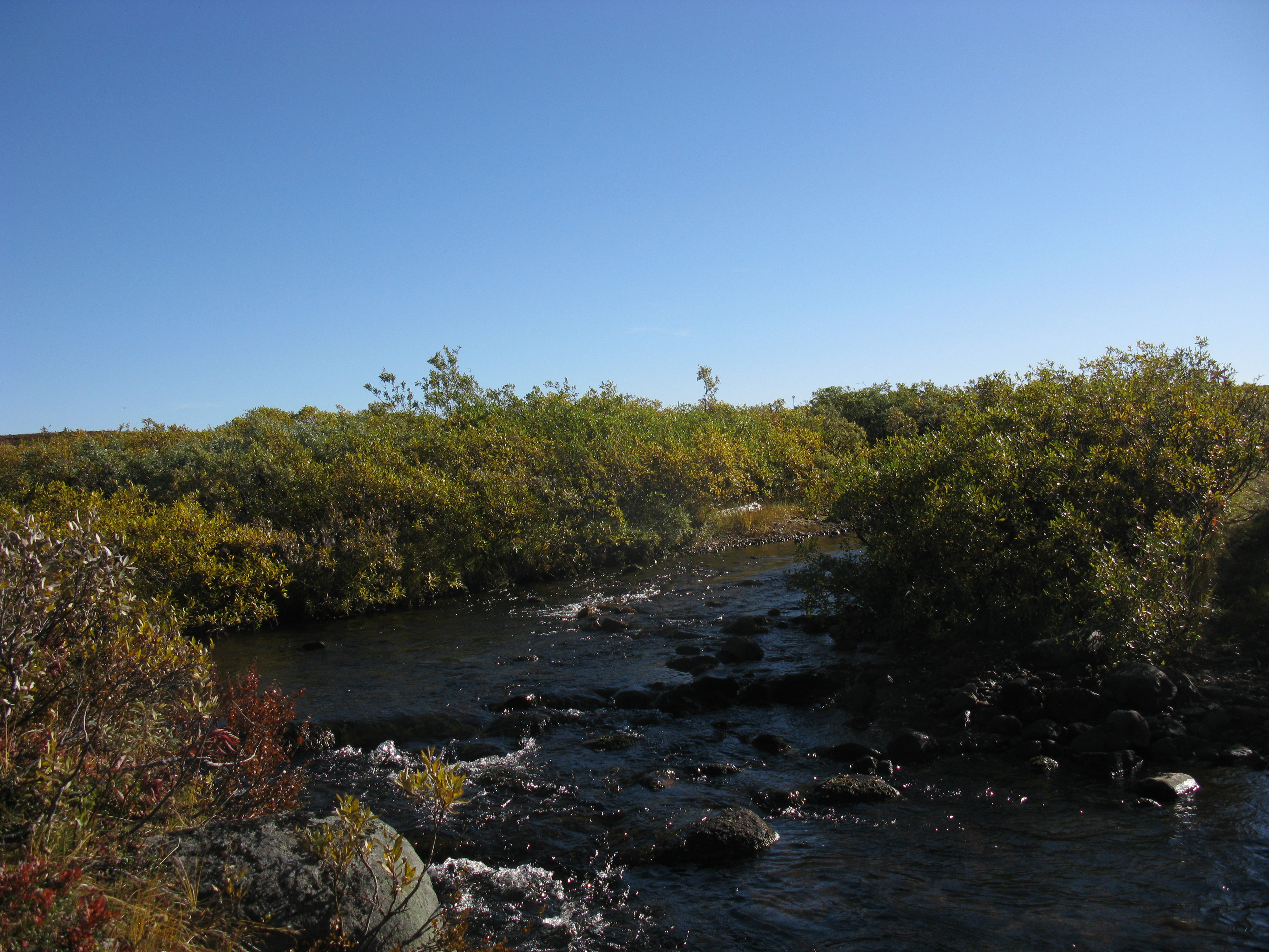 Skártajohka at Vassijávri, where the footpath Järämä–Vuoskojaure crosses.